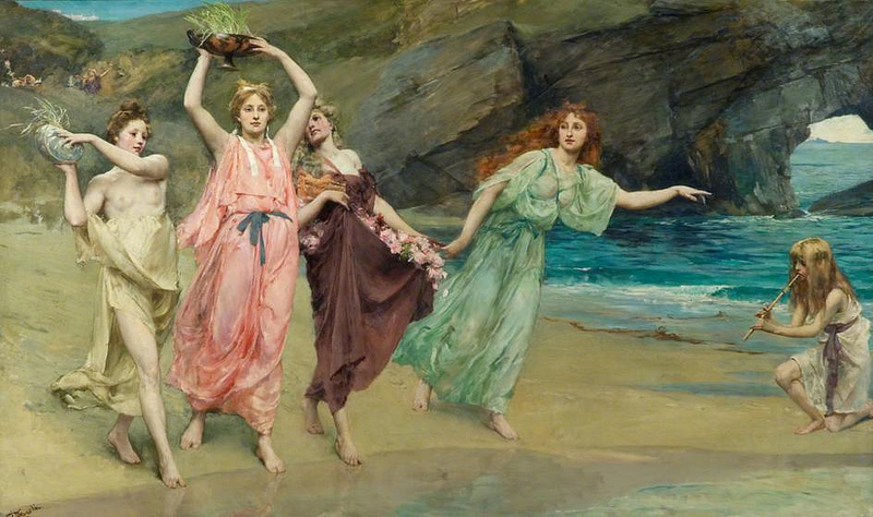 A group of maidens carry potted plants down to the sea, in commemoration of the death of Adonis. A girl plays a flute as the ceremony proceeds.